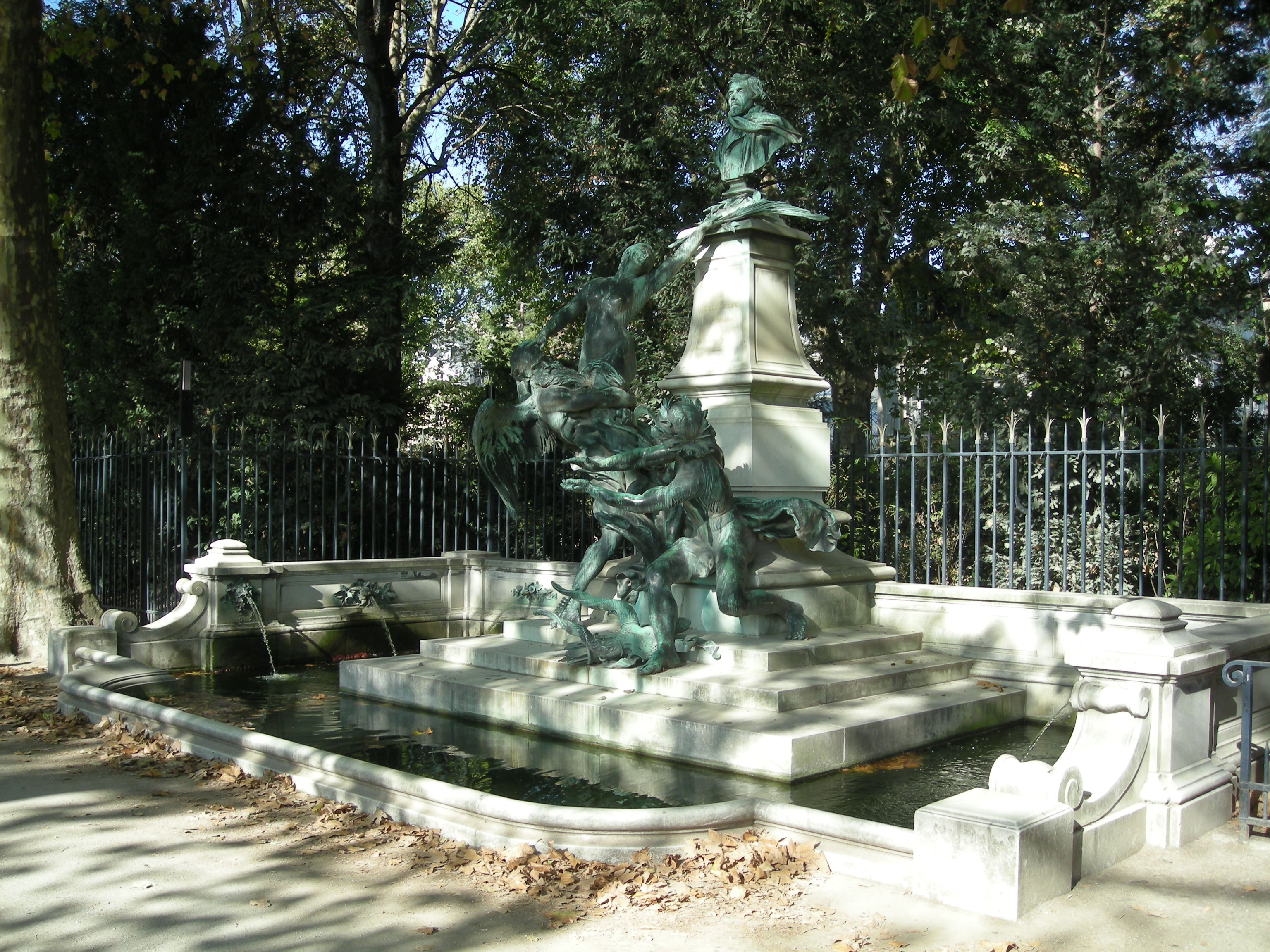 Statue in the Jardin du Luxembourg, Paris, France.